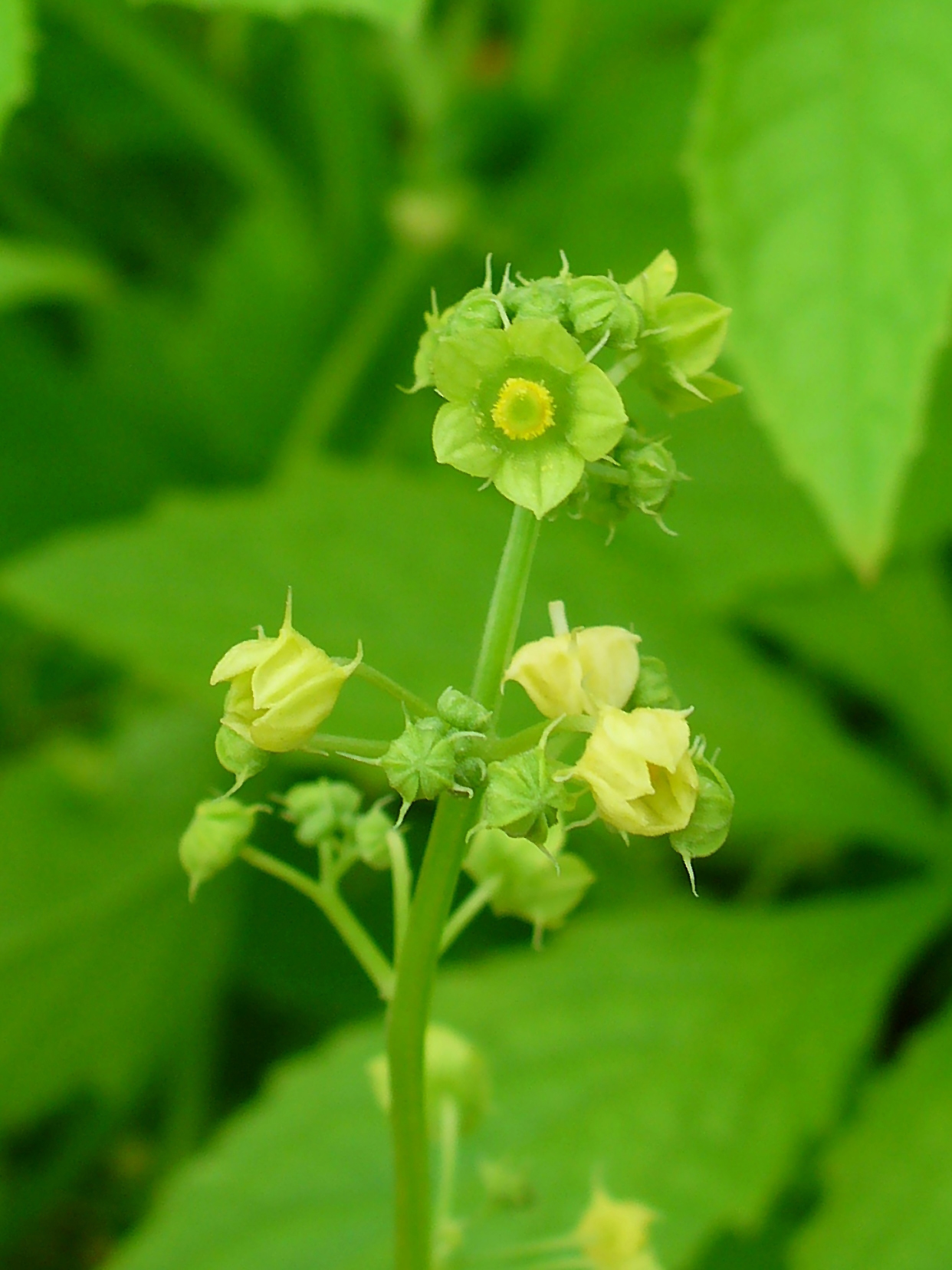 Cyclanthera pedata, Cucurbitaceae, Caigua, Achocha, Slipper Gourd, inflorescence; Botanical Garden KIT, Karlsruhe, Germany.